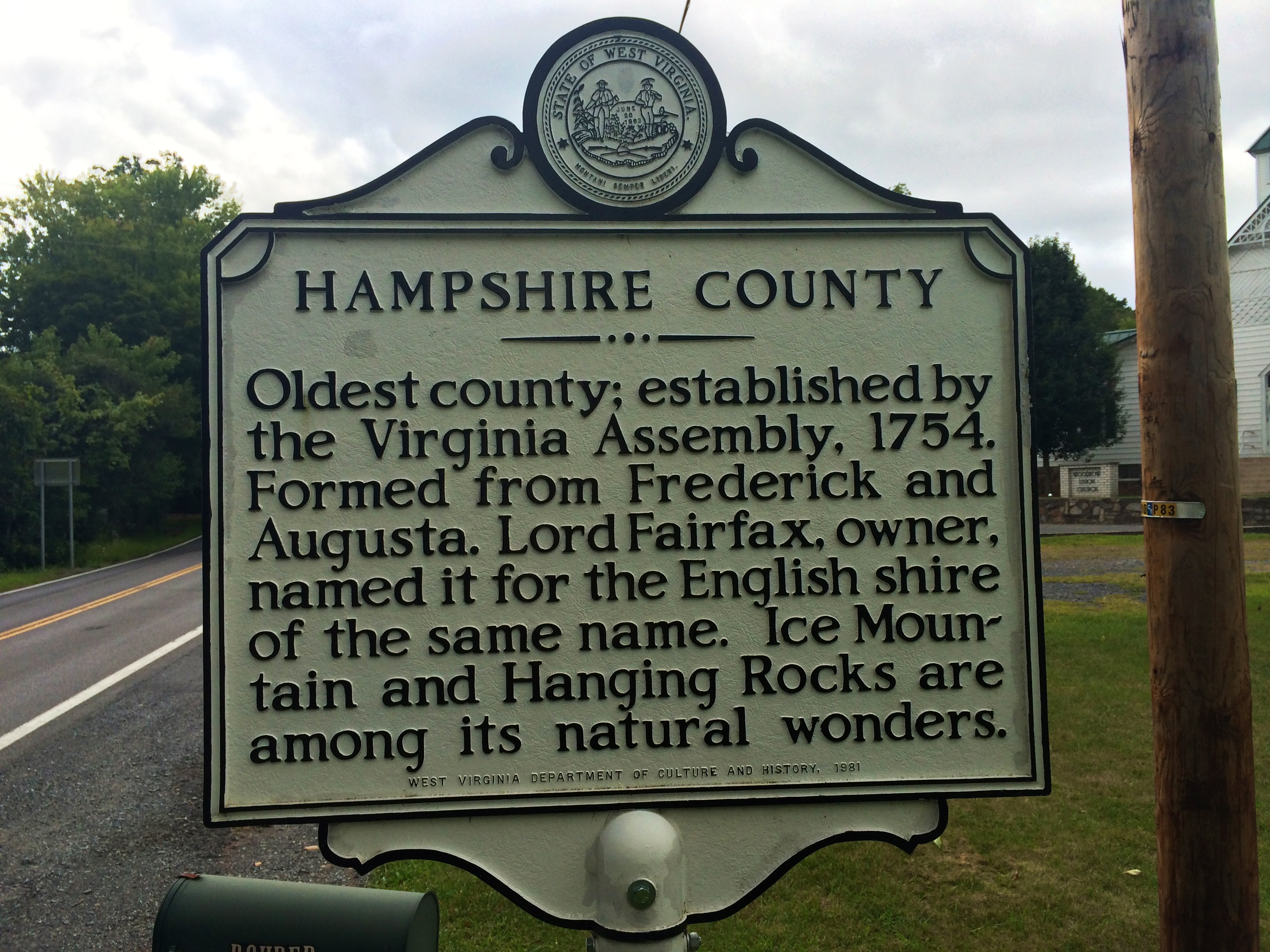 A West Virginia state highway historical marker illustrating a brief history of Hampshire County, West Virginia. The marker reads: "Oldest county; established by the Virginia Assembly, 1754. Formed from Frederick and Augusta. Lord Fairfax, owner, named it for the English shire of the same name. Ice Mountain and Hanging Rocks are among its natural wonders." The highway historical marker is located along Paw Paw Road (West Virginia Route 9) in Woodrow, West Virginia. Photographed by Justin A. Wilcox of Washington, D.C.